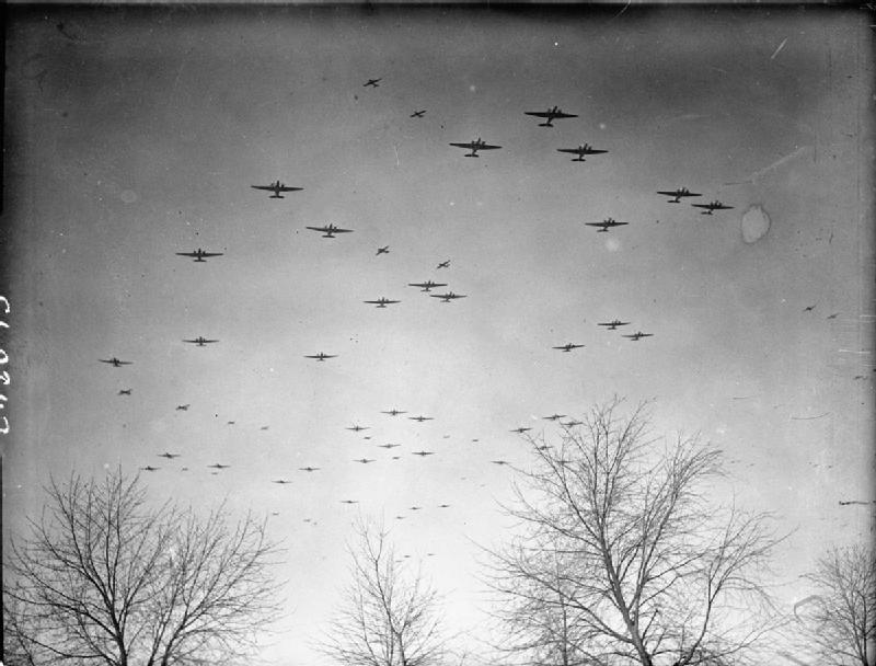 Douglas Dakotas of No. 46 Group fly in formation over Wavre, Belgium, heading for the dropping zones east of the River Rhine. Above them, Dakotas towing Airspeed Horsas fly a divergent course towards their objectives.